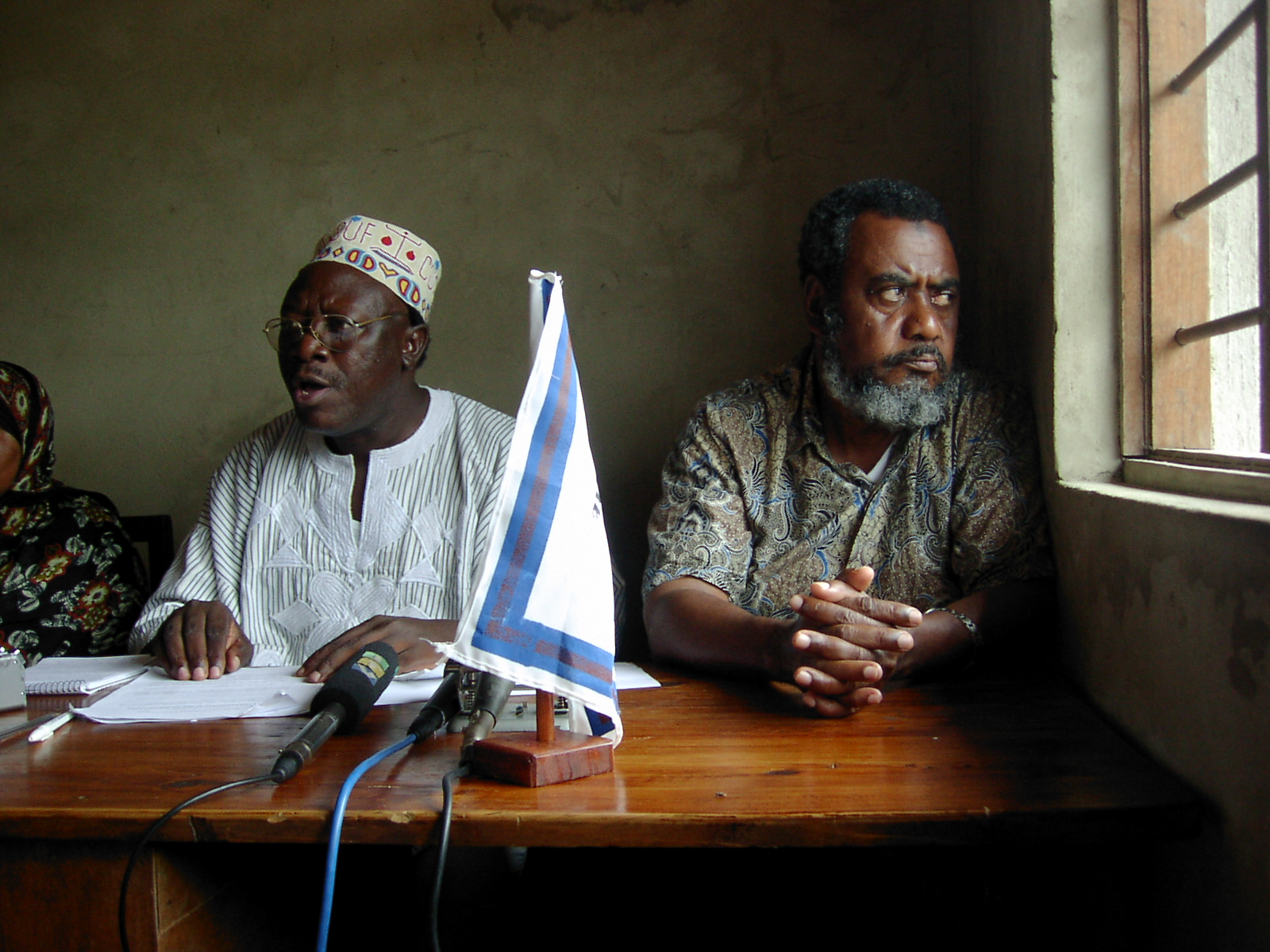 Prof. Lipumba (left) and Seif Shariff Hamad (right) in their victory press conference after the by-elections, 19 May 2003, Chake Chake town, Pemba, Tanzania